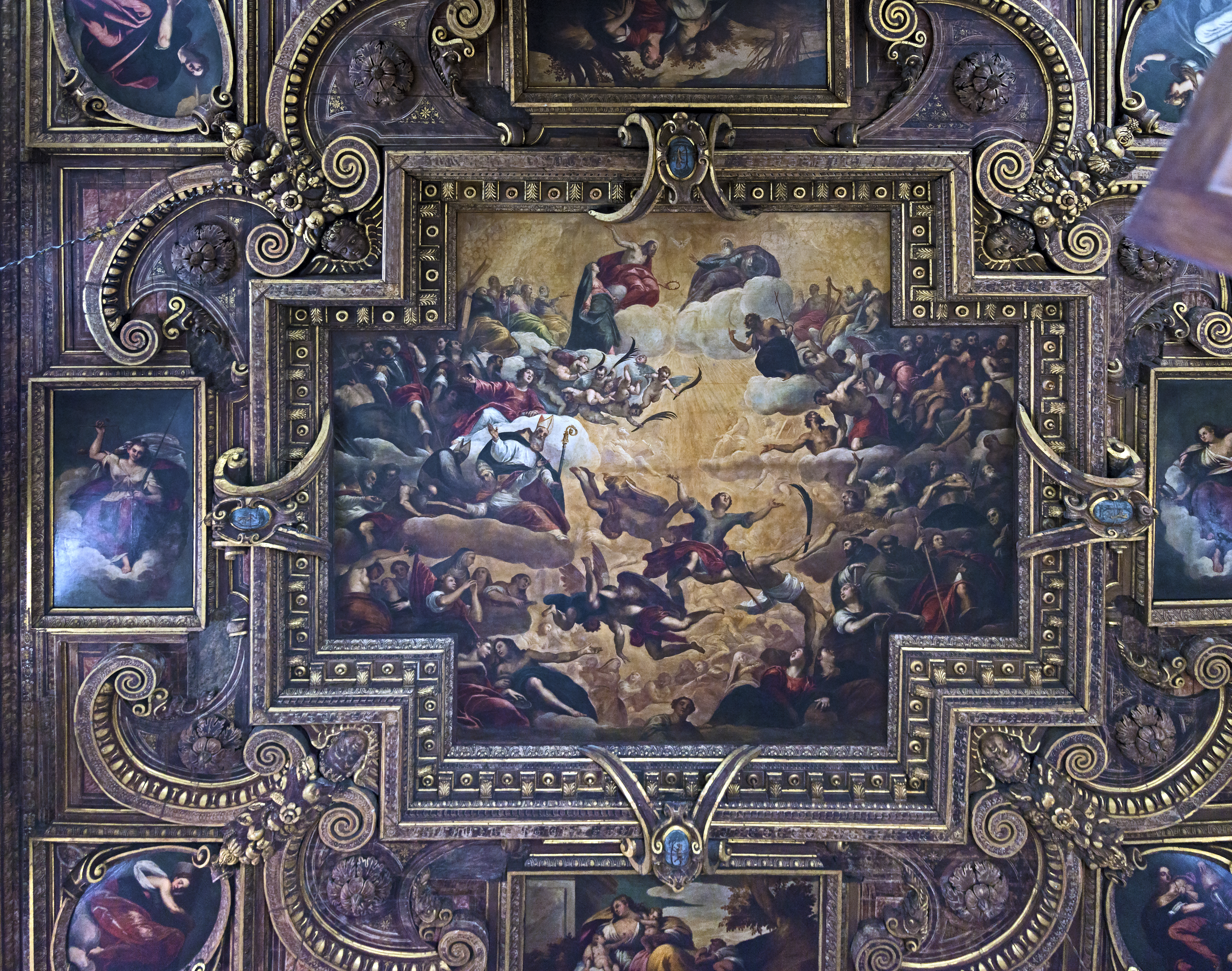 San Zulian, Venice, the central ceiling : The Triumph of Saint Julian by Palma il Giovane